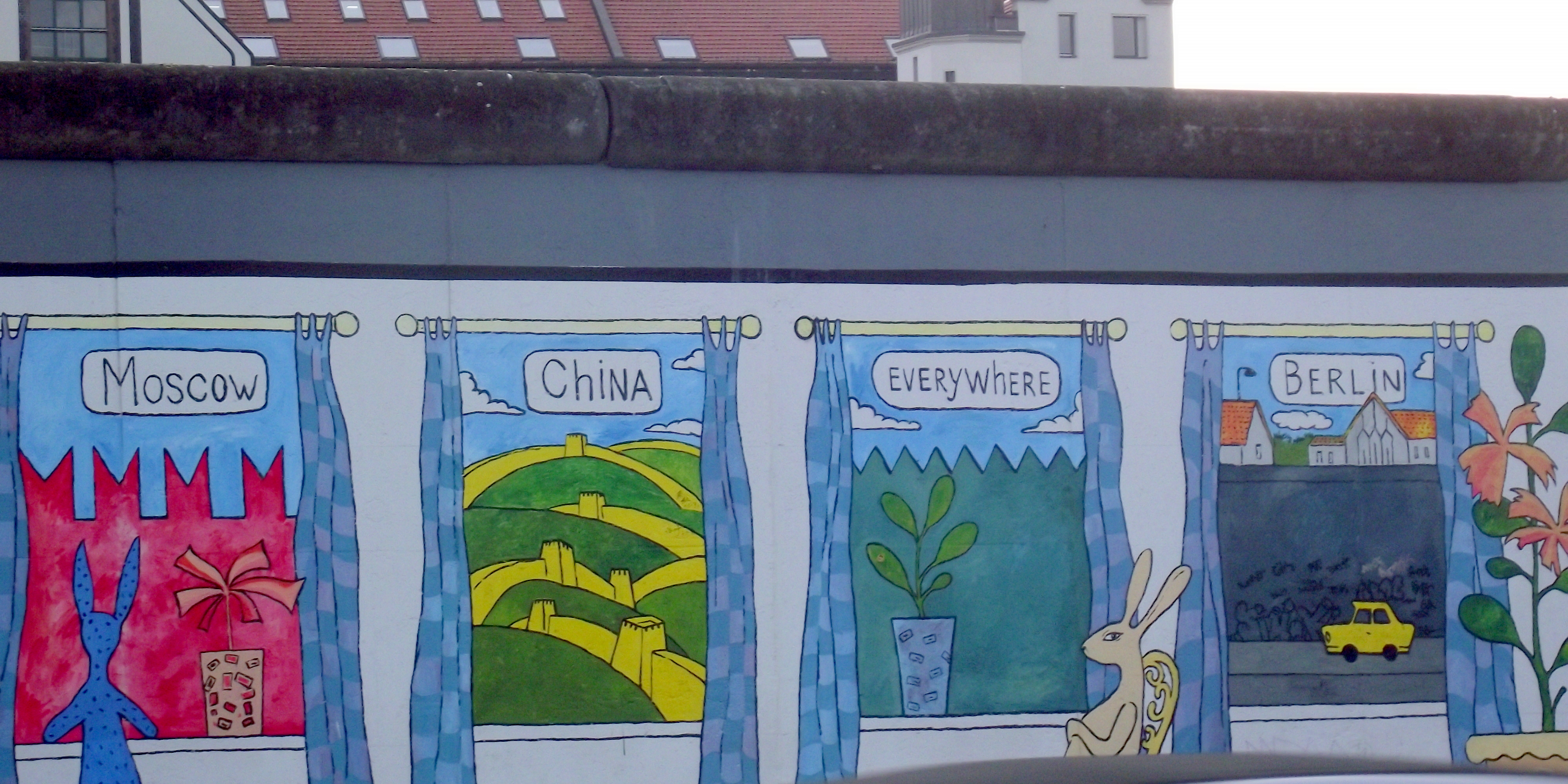 El muro de Berlín